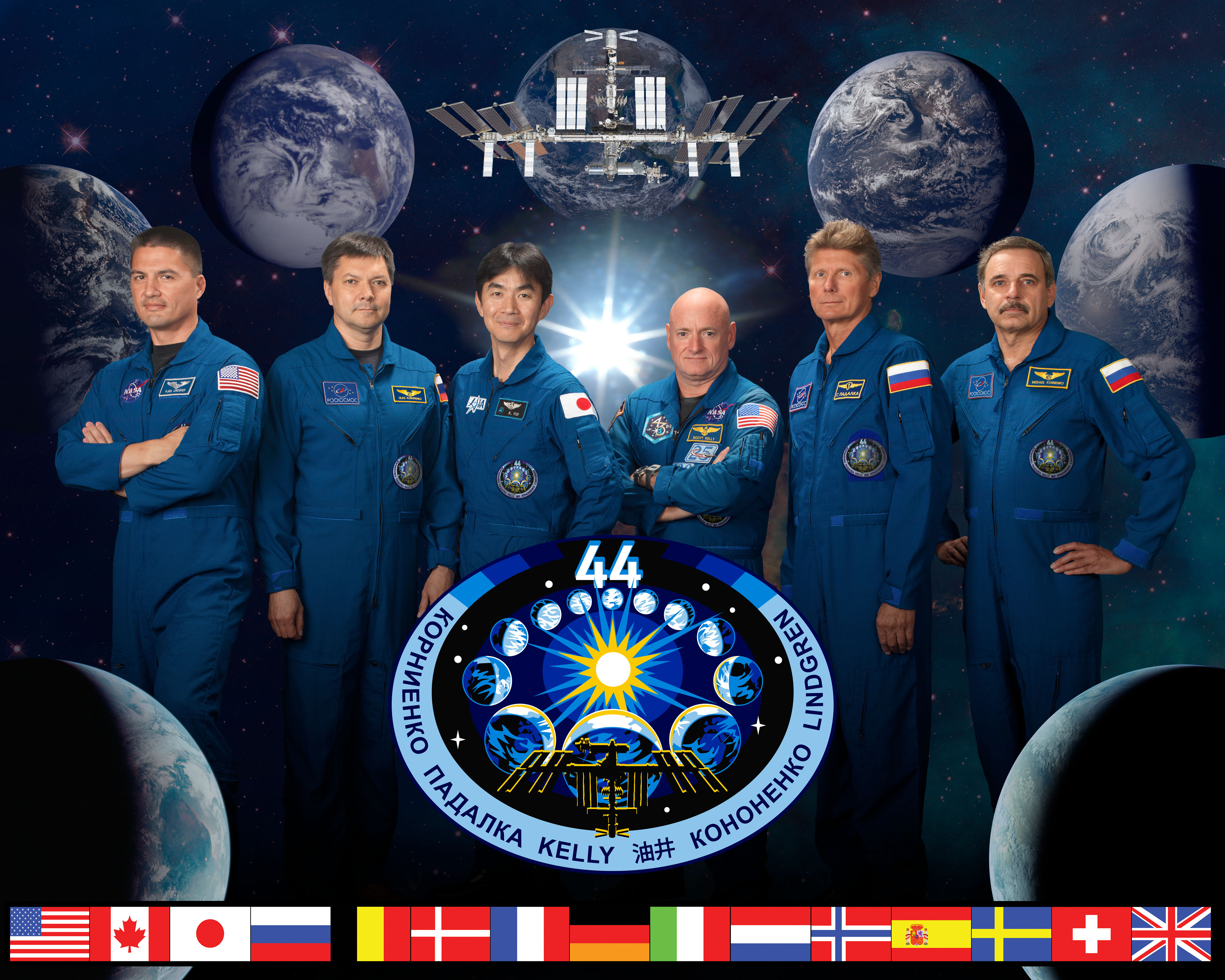 Official Expedition 44 crew portrait Soyuz 42 (Gennady Padalka, Mikhail Kornienko, Scott Kelly) and Soyuz 43 (Oleg Kononenko, Kimiya Yui and Kjell Lindgren)